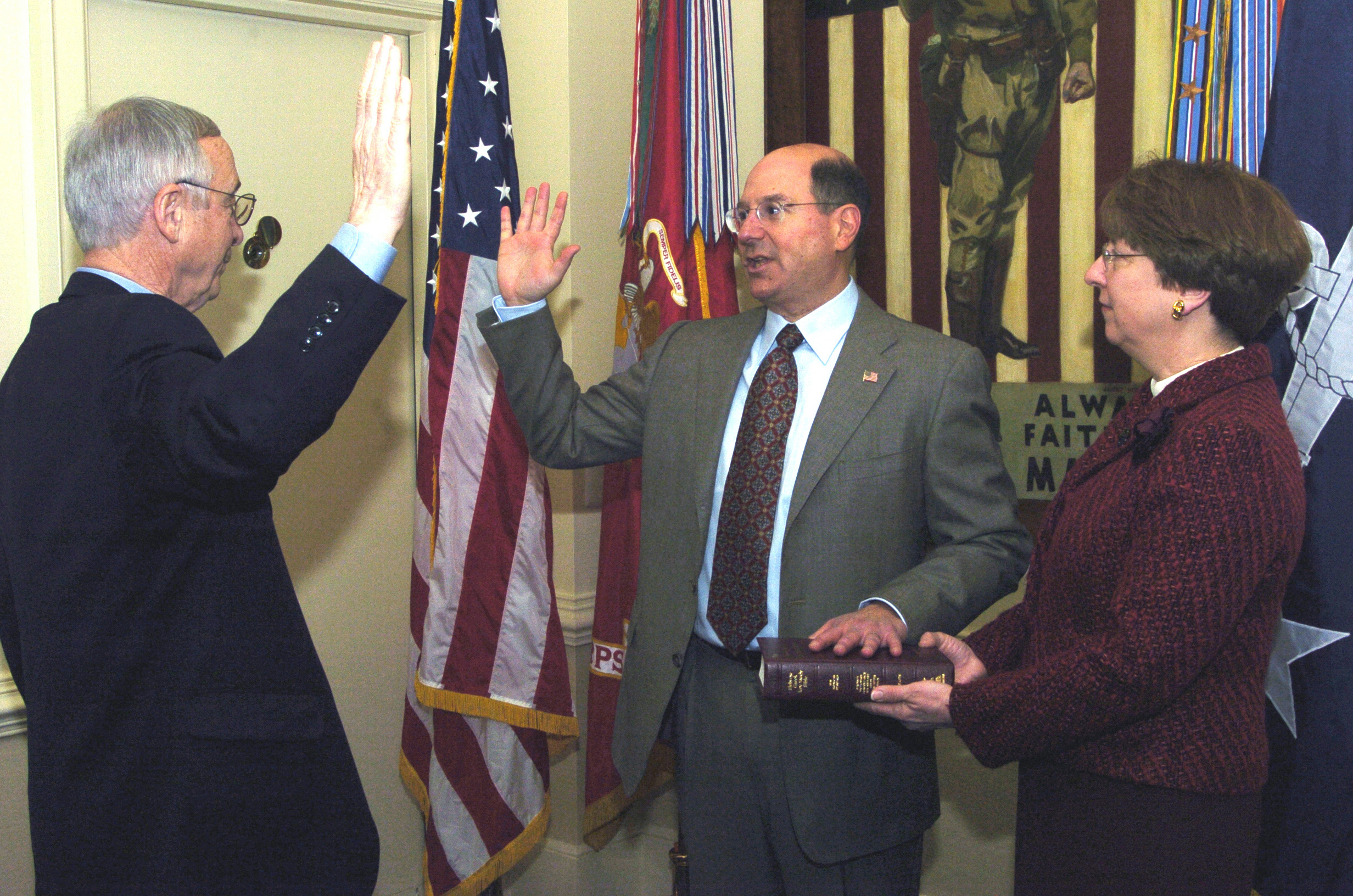 Dr. Donald C. Winter, center, takes the oath of office as the 74th Secretary of the Navy in a ceremony held at the Pentagon. Acting Deputy Secretary of Defense Gordon England, left, administered the oath while Winter's wife Linda observed.